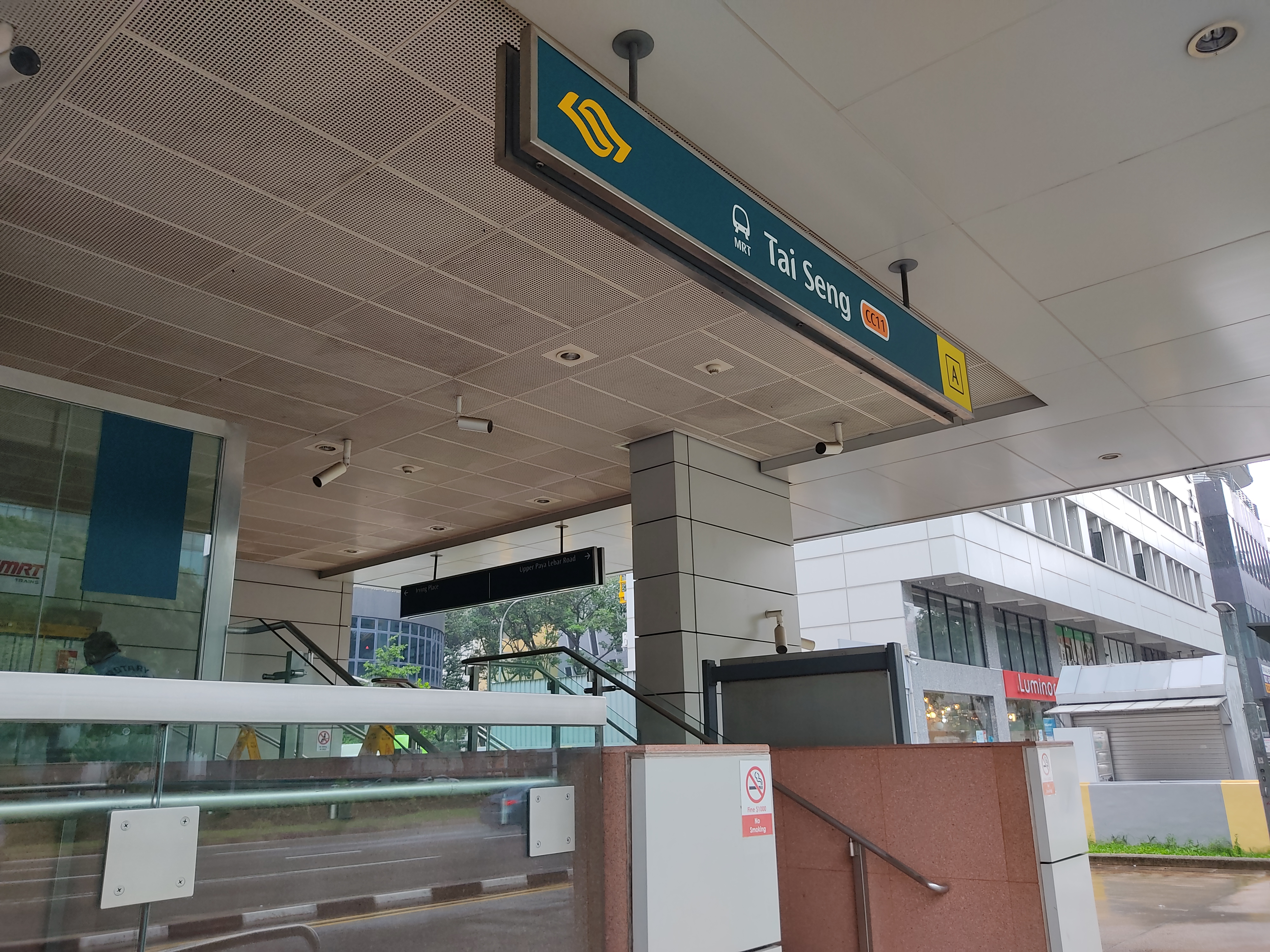 Exit B of Tai Seng MRT station